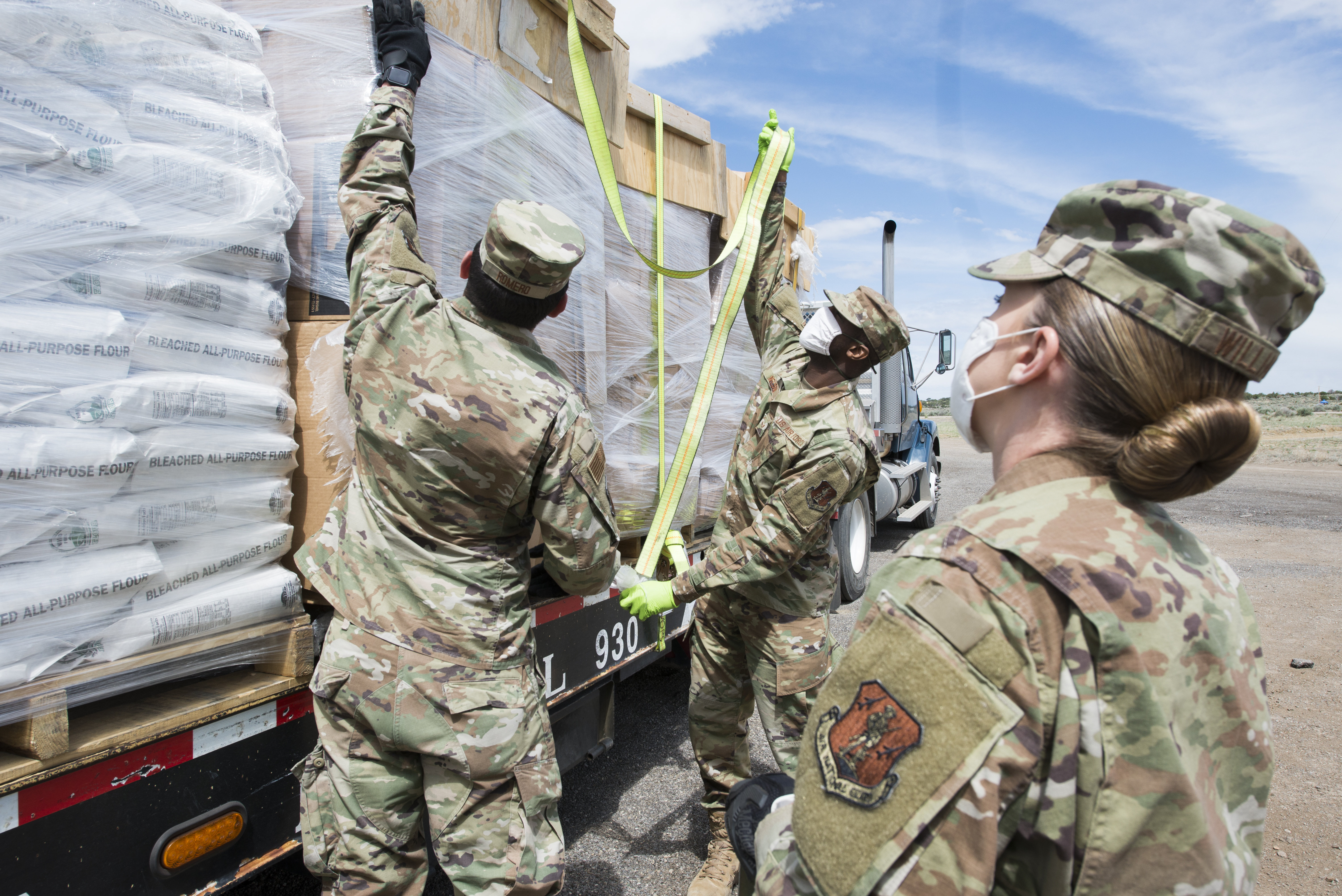 Airmen from the 150th Mission Support Group headed to Rock Springs for another food delivery in support of the New Mexico National Guard Joint Task Force COVID-19 response mission. (Photo by Tech. Sgt. Franchesca Pancham)